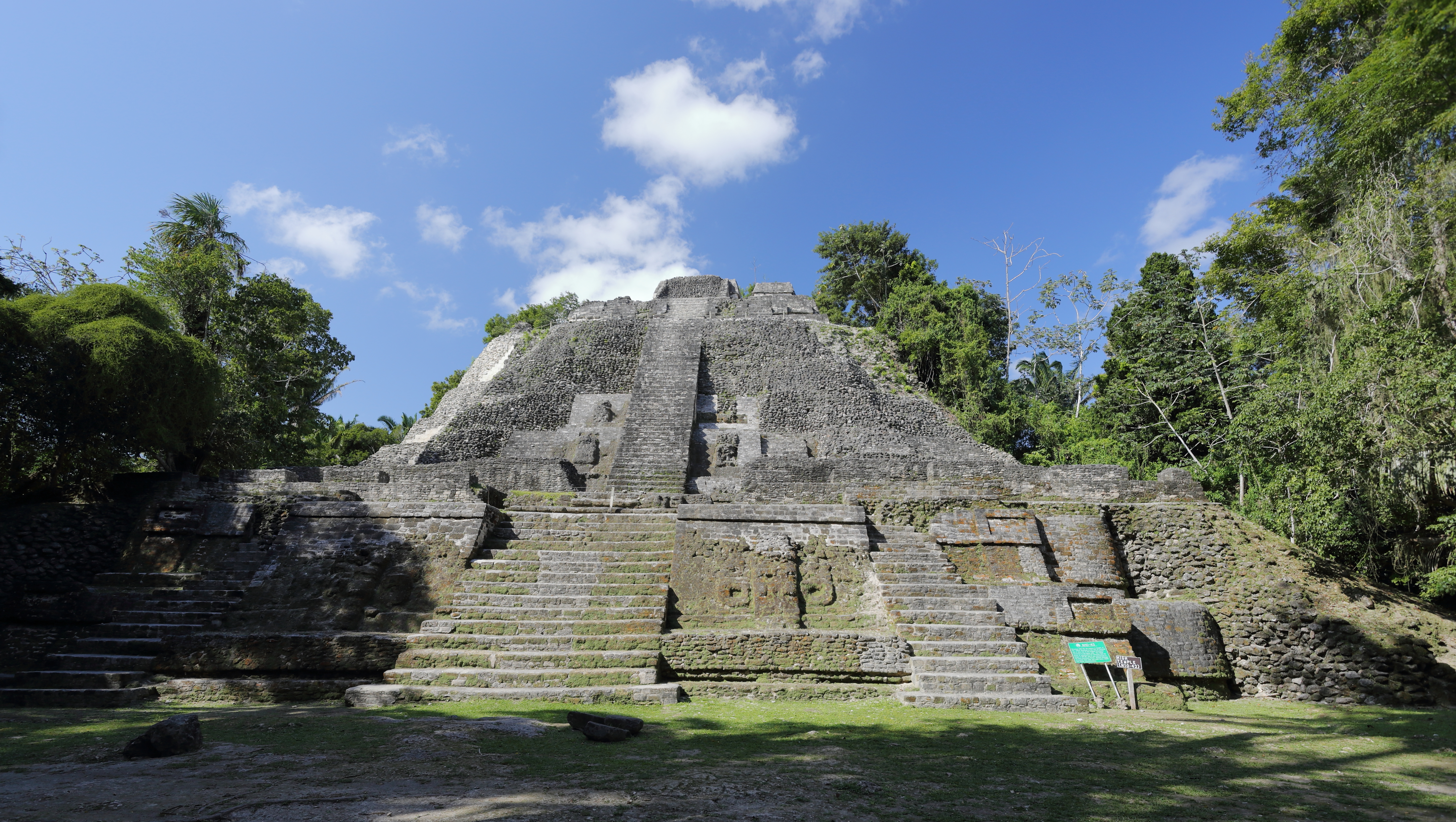 With a height of 33m, the High Temple is one of the largest structures of Lamanai, for 3000 years a major city of the Maya civilization, today a predominantly still unexcavated archaeological site located in the north of Belize.